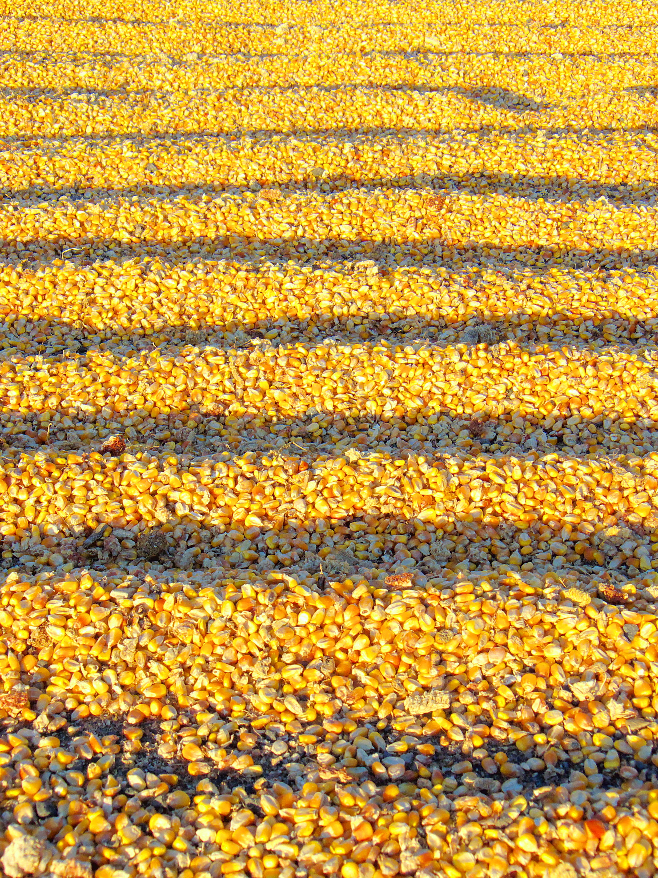 Almost everywhere we went, we see people drying corn and various other grains in the sun. Turns out its harvest time. A local, tending to the corn pictured communicated to us that the corn will all be given to the government, pointing to the portrait of Kim Jong Il and Kim Il Sung.